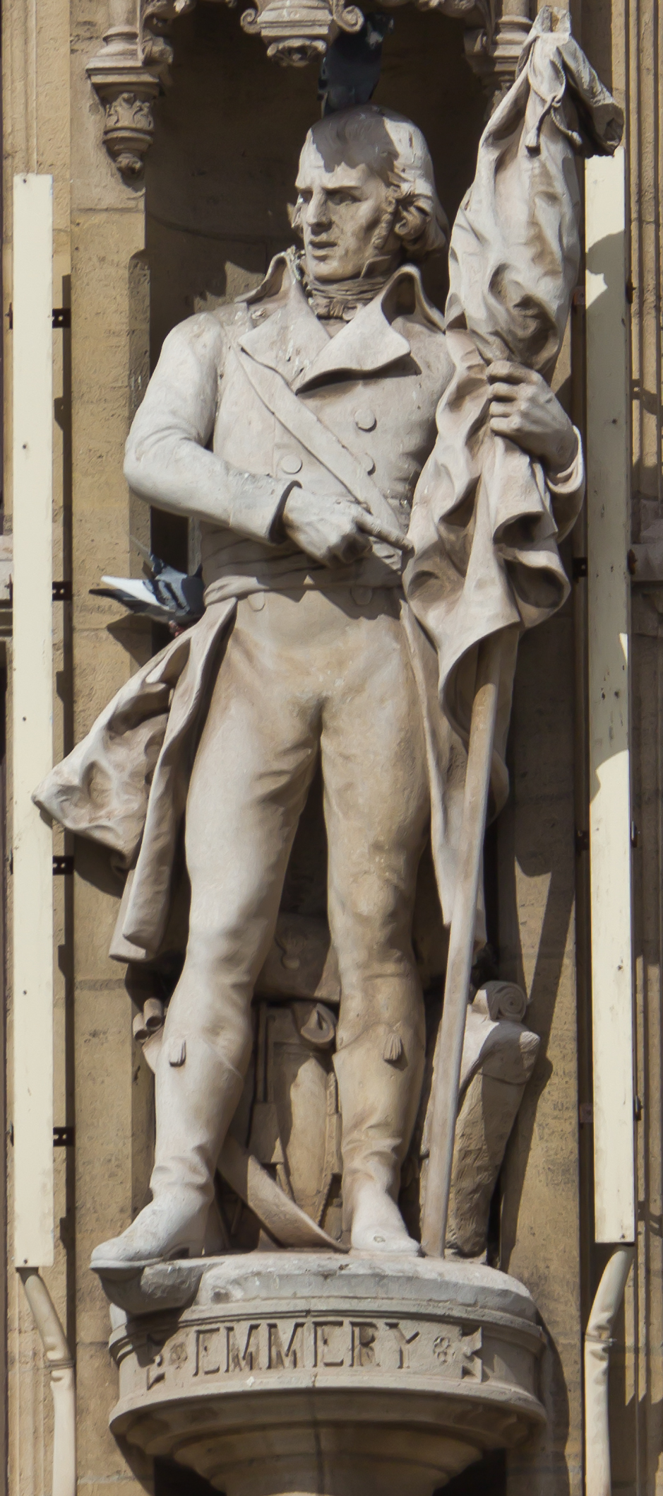 Town hall of Dunkerque - statue of Jean-Marie Joseph Emmery